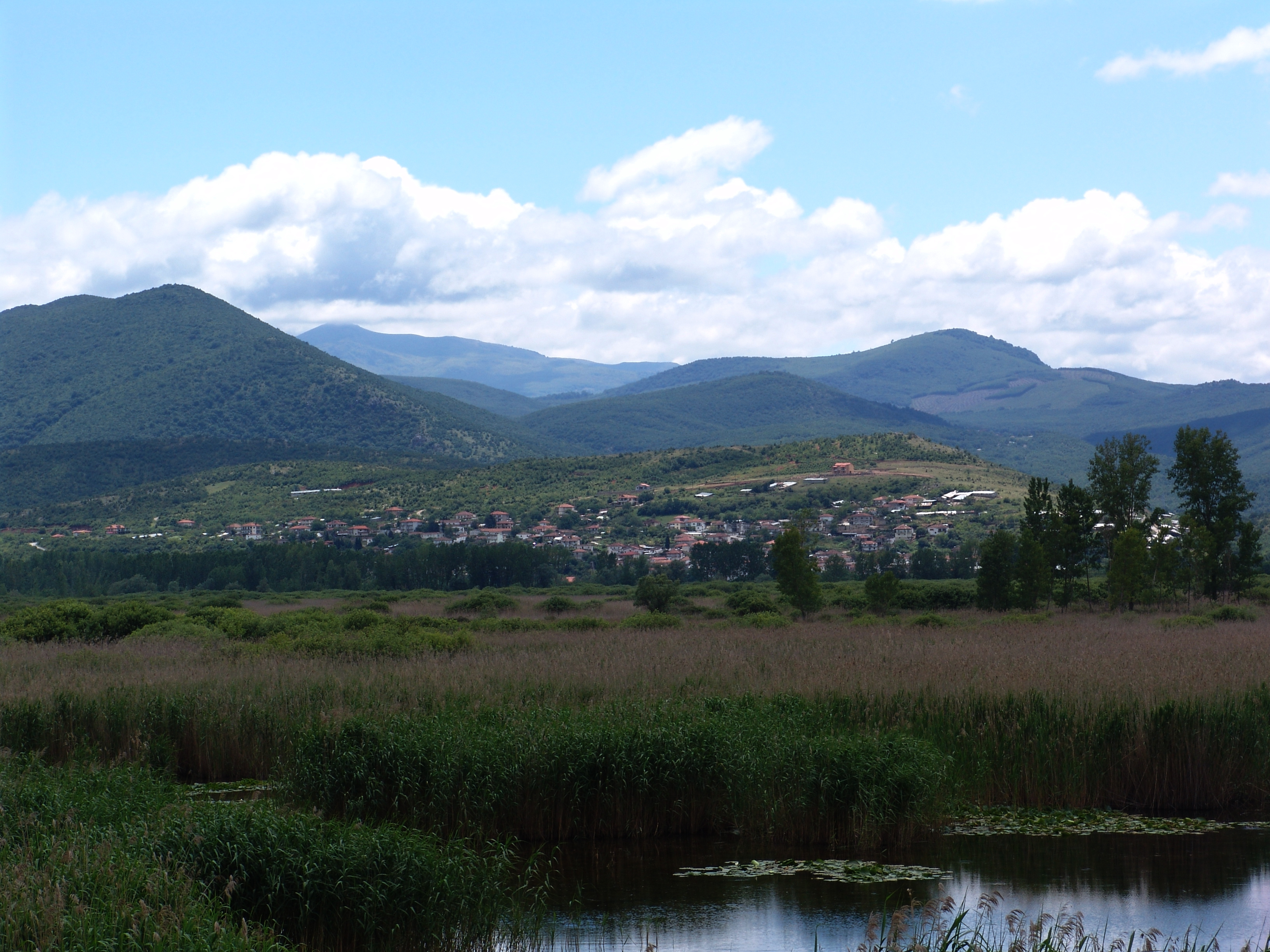 This is a photography of Natura 2000 protected area with ID GR1240004